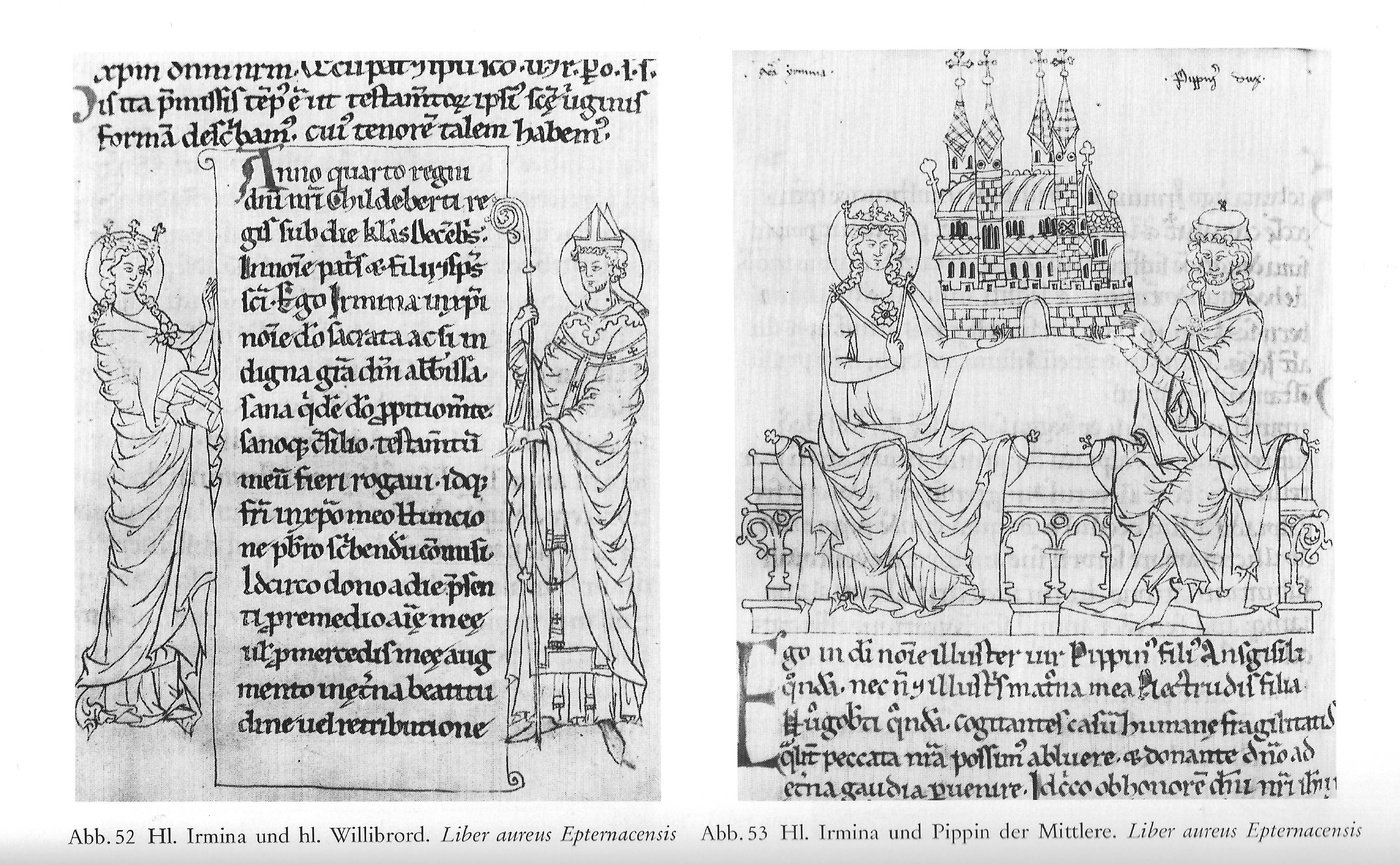 Illustrations from the Vita Irminae, in the Liber aureus Epternacensis